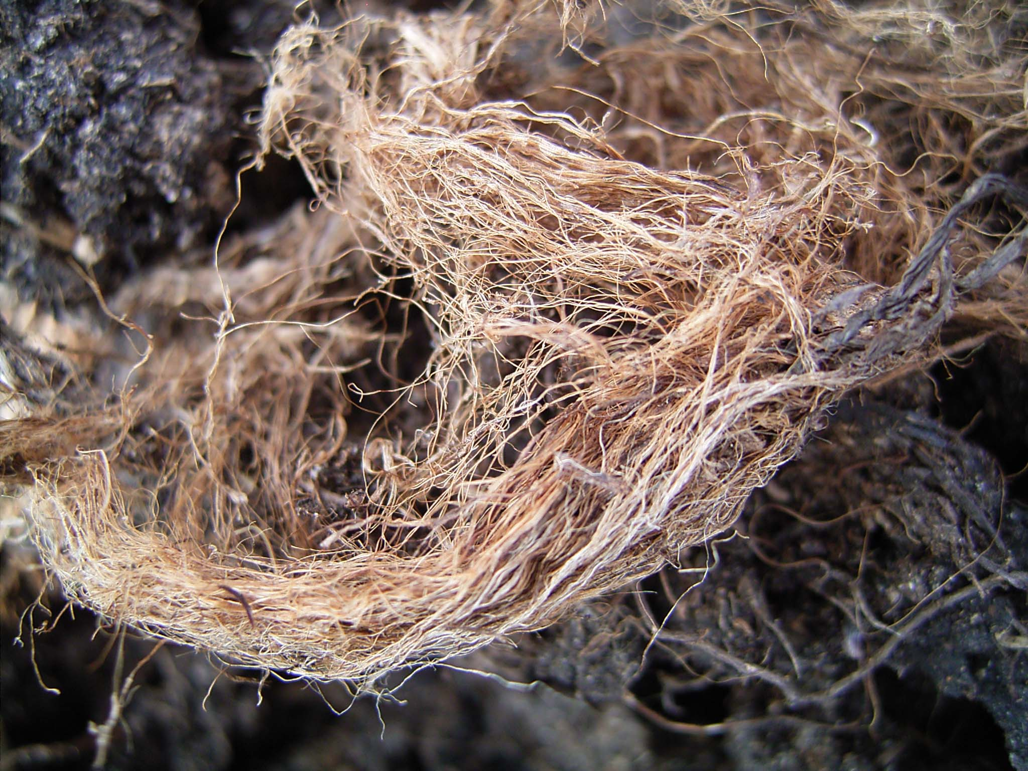 Fibrous tissue in peat